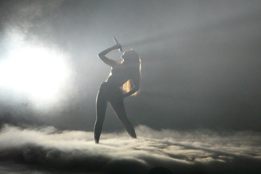 Intro of I am... tour